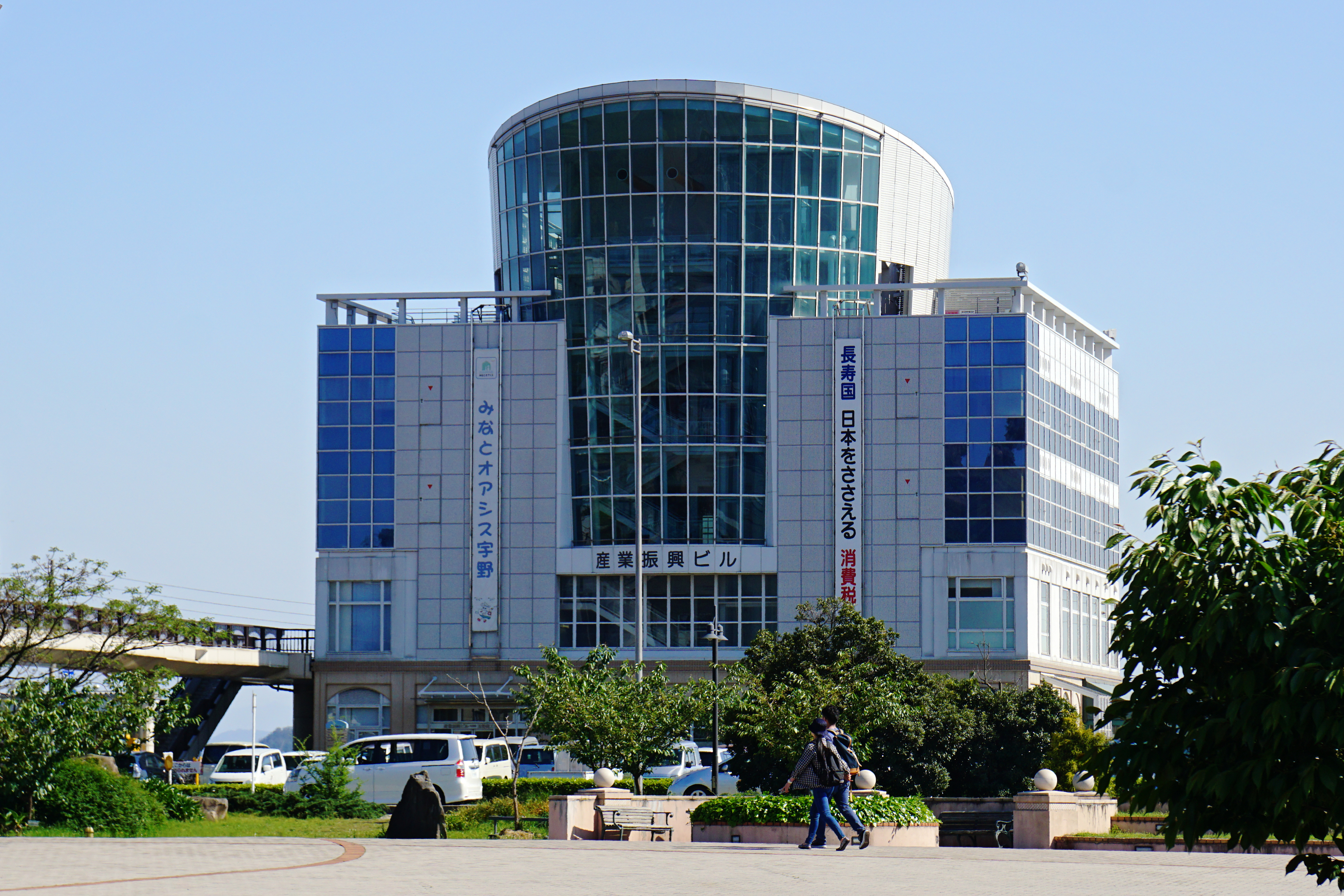 Port of Uno in Tamano, Okayama prefecture, Japan.